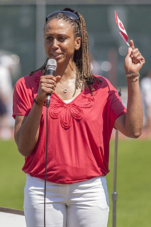 Photo of Charmaine Crooks